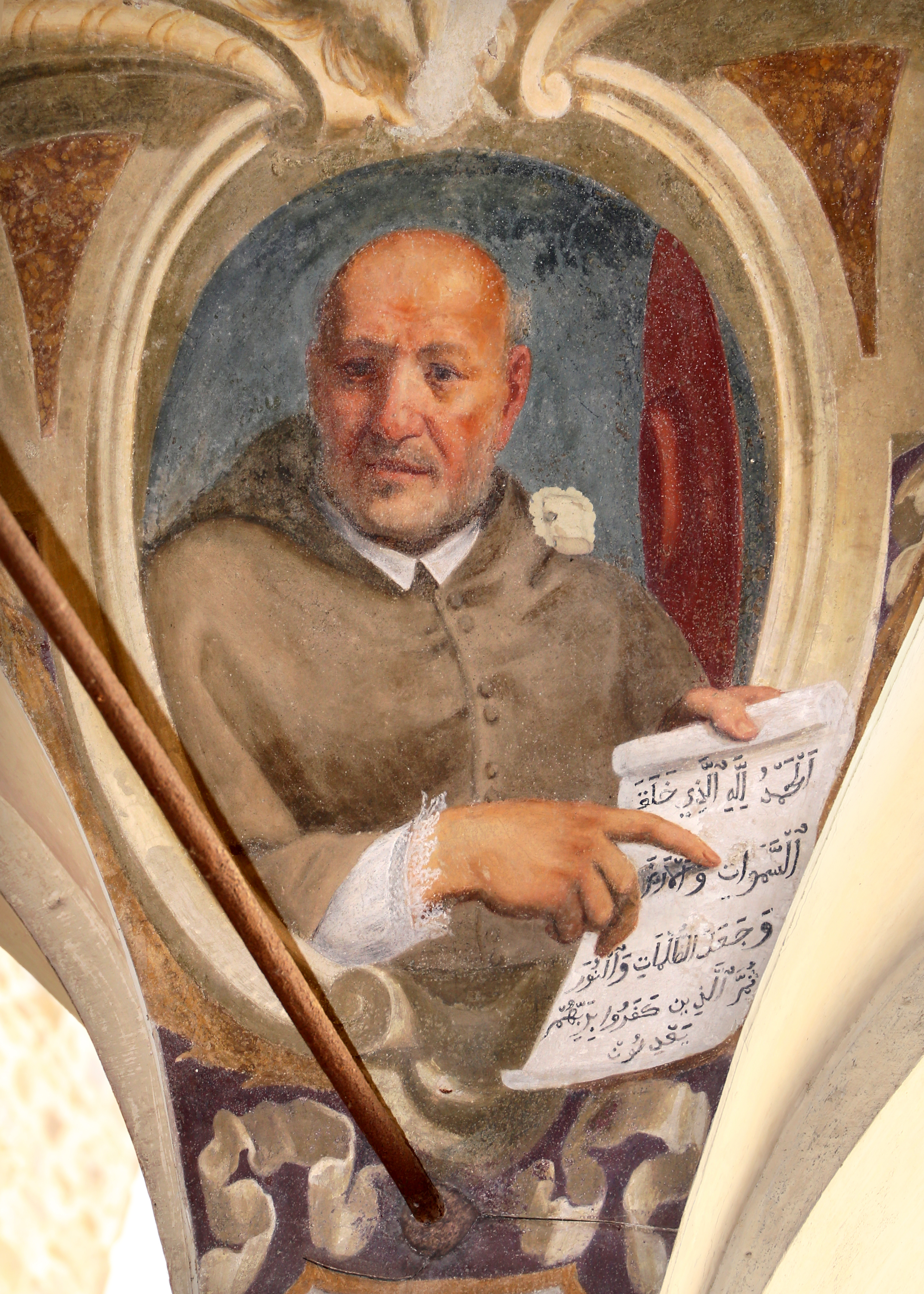 Ognissanti (Florence) - Cloister - Franciscan Personalities by Fabrizio Boschi and workshop